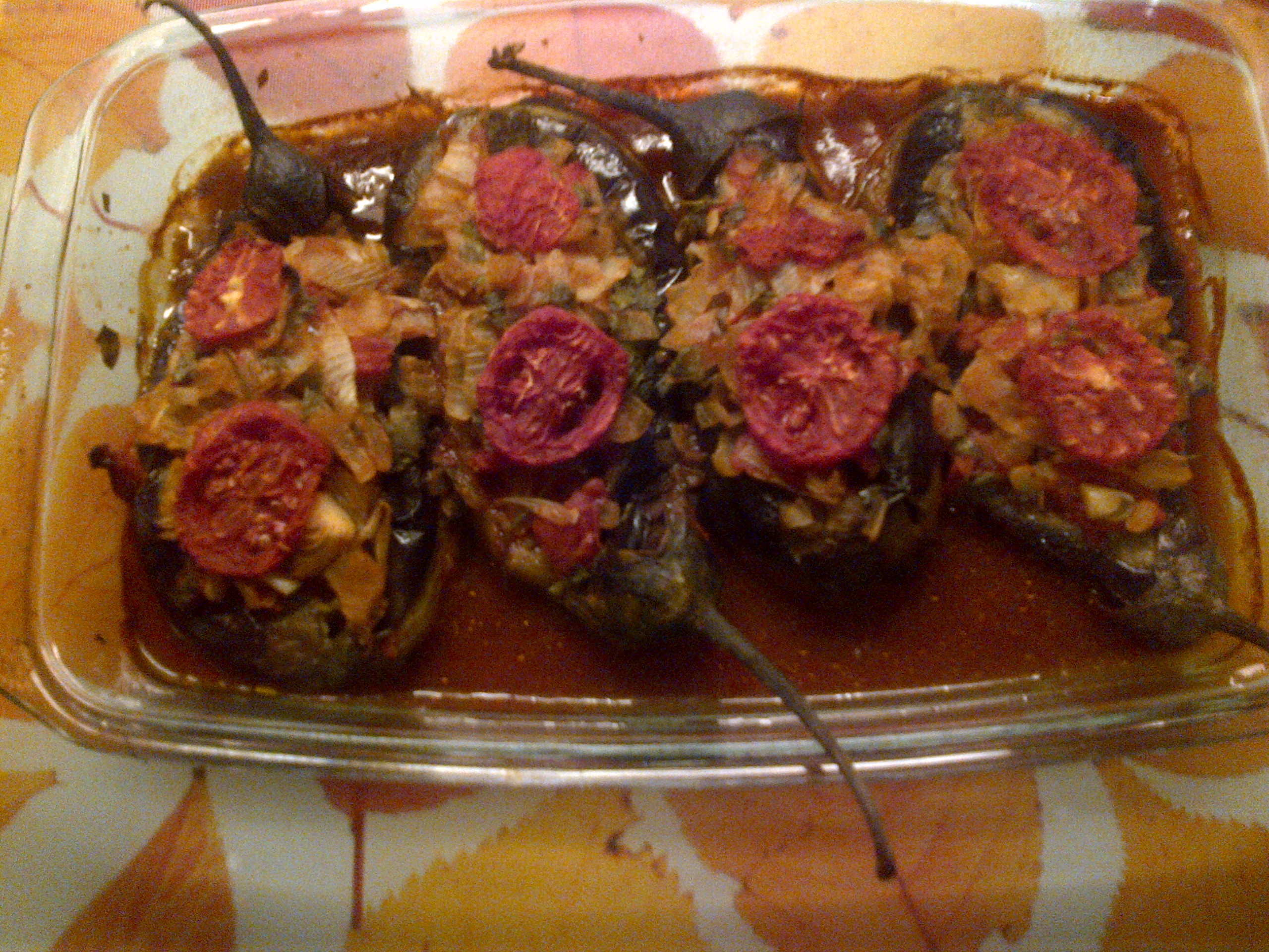 A tray of "imambayildi", from the Turkish cuisine, judt coming out of the oven.